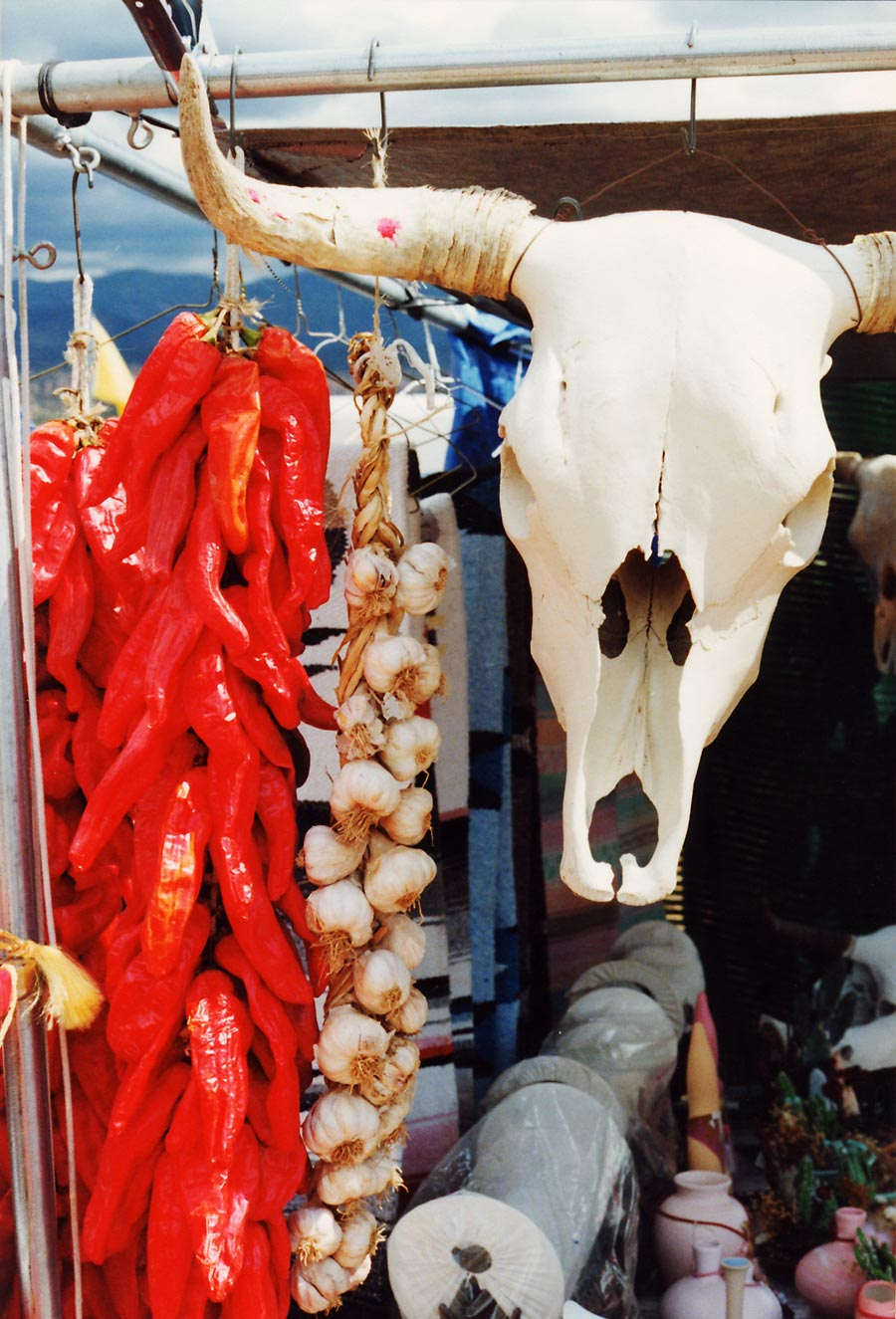 Symbols of the Southwestern States of the United States, a string of chilli peppers and a bleached white cow's skull. Found at a market near Santa Fe, New Mexico.